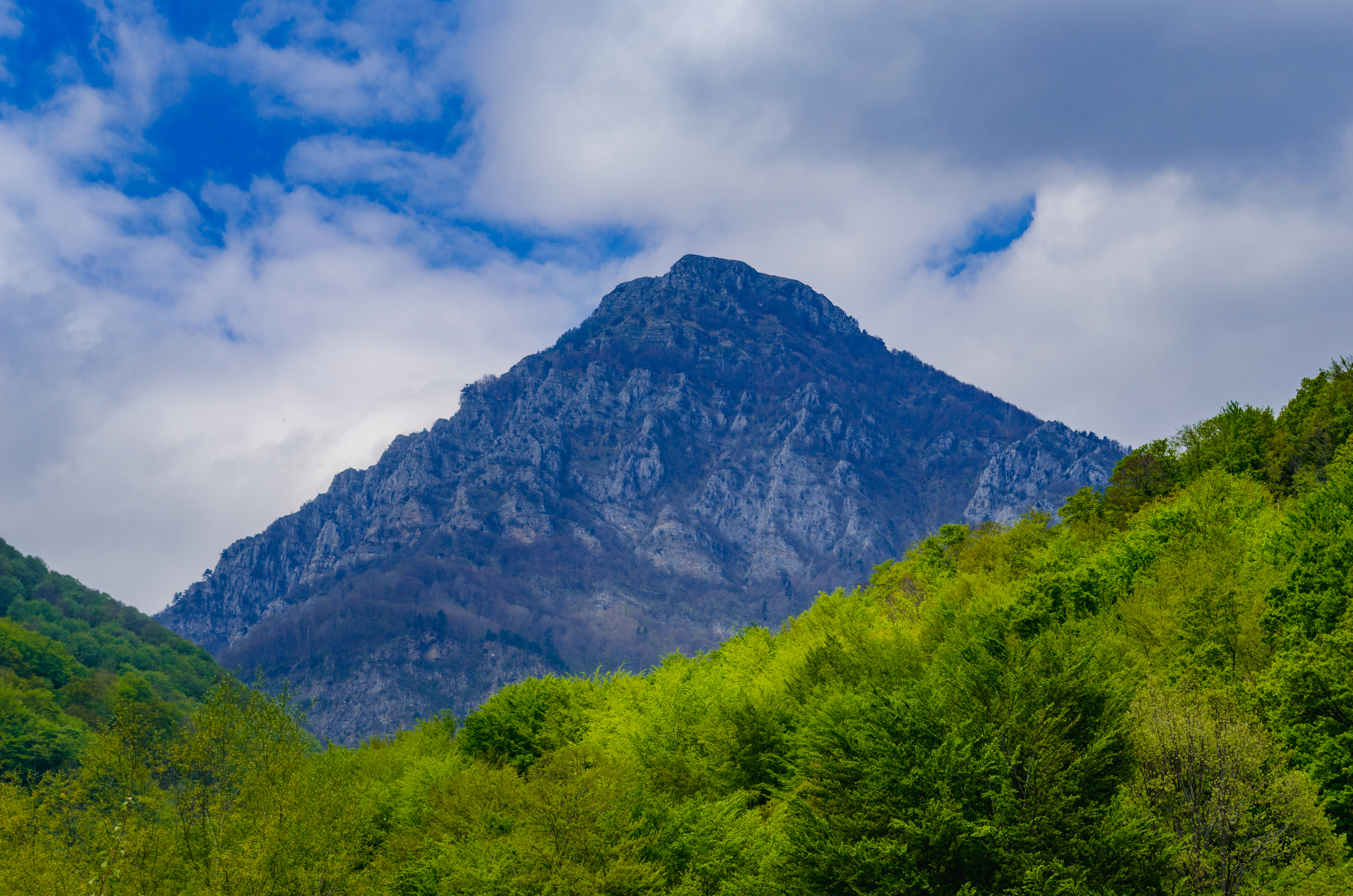 The peak Čiči Kaja (1,767 m) on the Kožuf mountain as seen from Smrdliva Voda, Macedonia